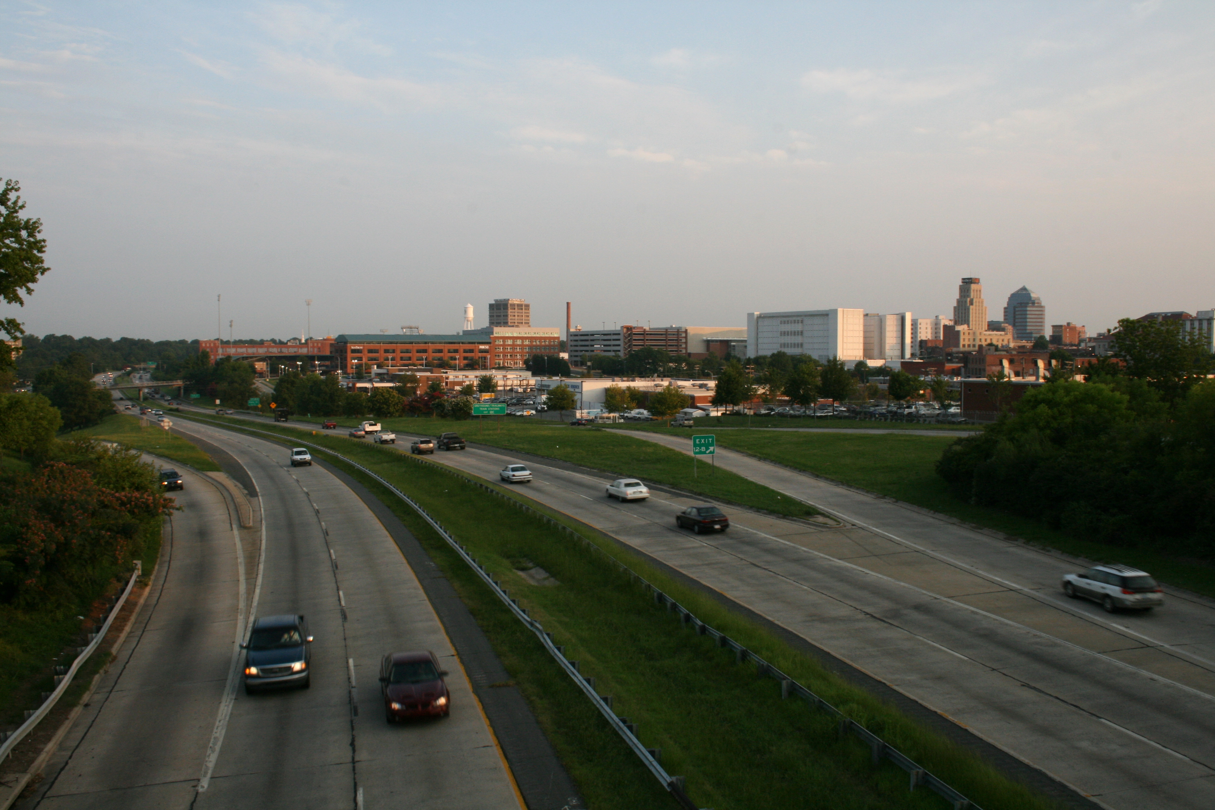 The Durham Freeway winding around downtown Durham, North Carolina, viewed in the early morning from the Fayetteville St overpass.